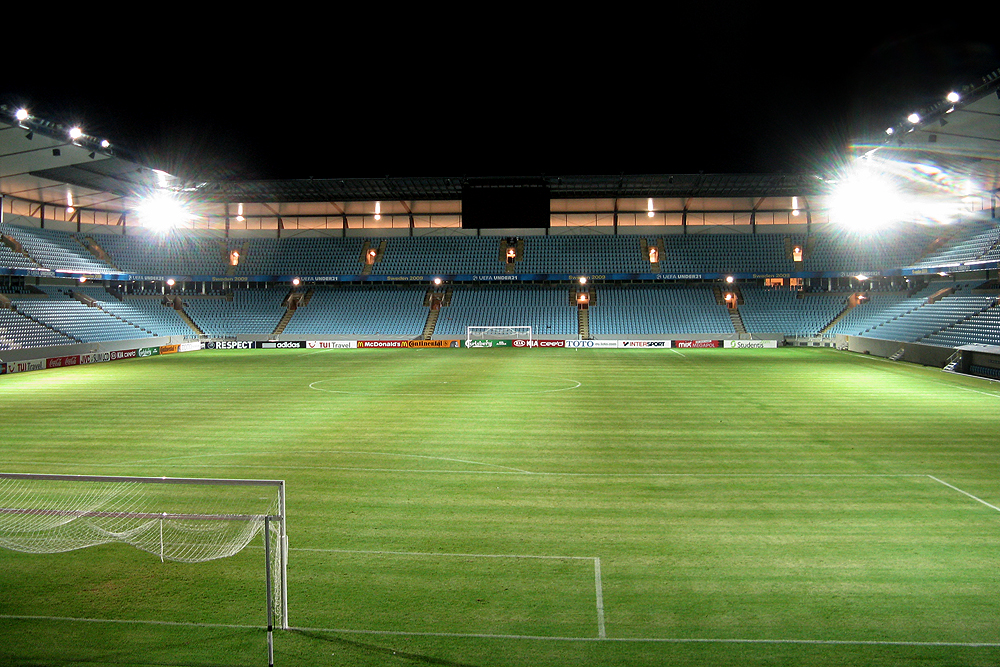 MFF Stadiumn during the U21 European Championship in Sweden, 2009